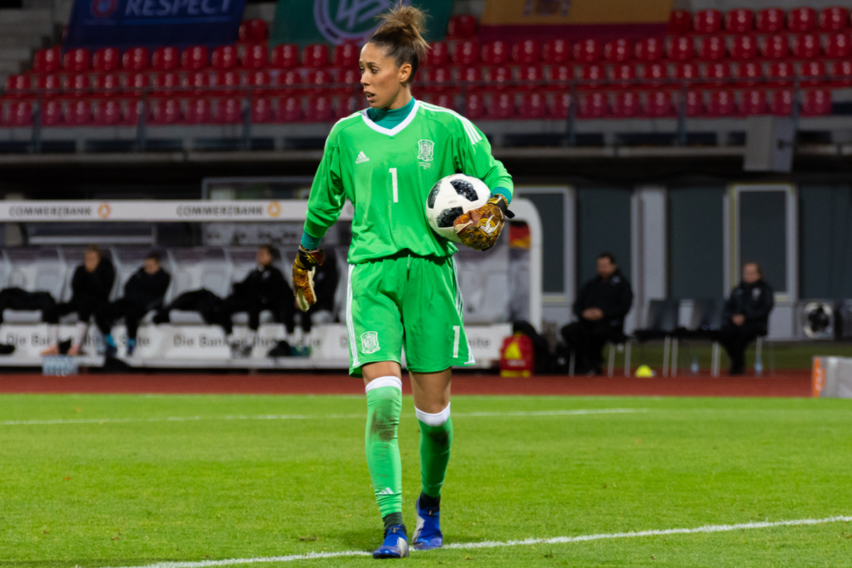 Dolores Gallardo during the match vs Gemrany